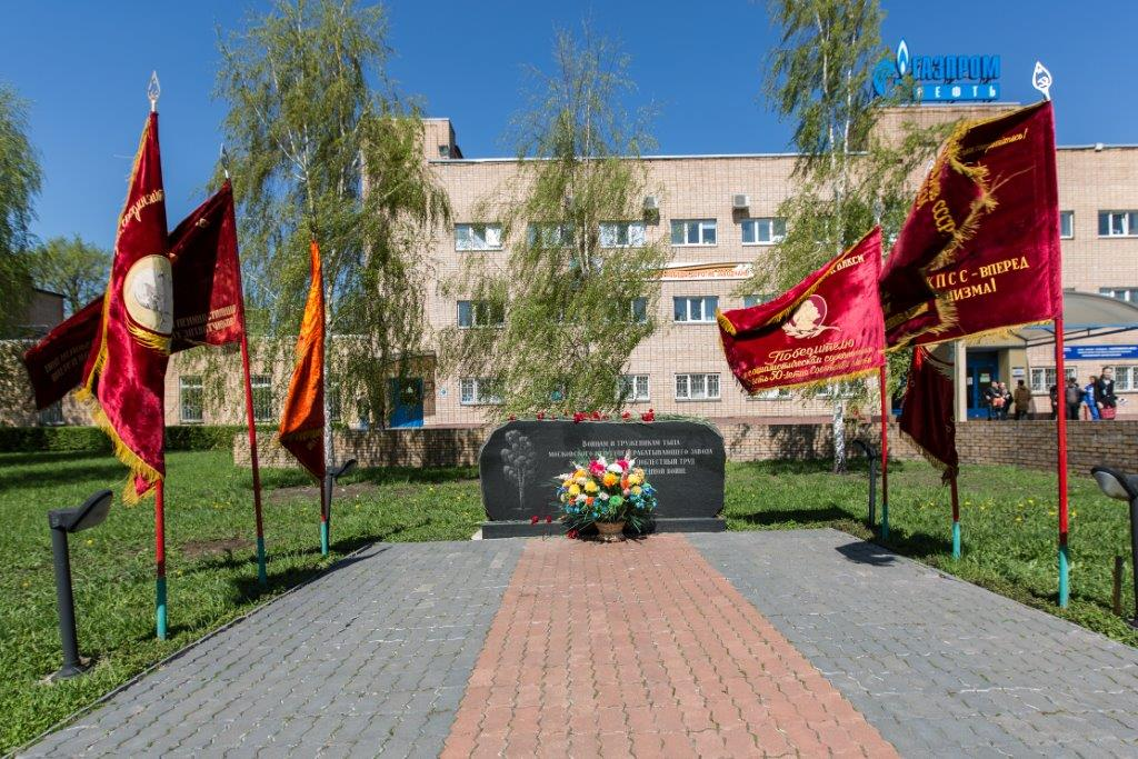 Gazpromneft — Moscow refinery. Monument in honor of stuff-defenders of the Motherland during the Great Patriotic War. Preparing for the annual ceremony of Victory Day, May, 6, 2015.